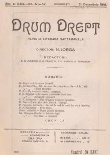 The cover of the literary magazine "Drum Drept", issue no. 48-52, published in Bucharest on December 31, 1915; Director: Nicolae Iorga, Editors: Dimitrie N. Ciotori, Constantin Şaba Făgeţel, Ion U. Soricu, Dumitru Tomescu.